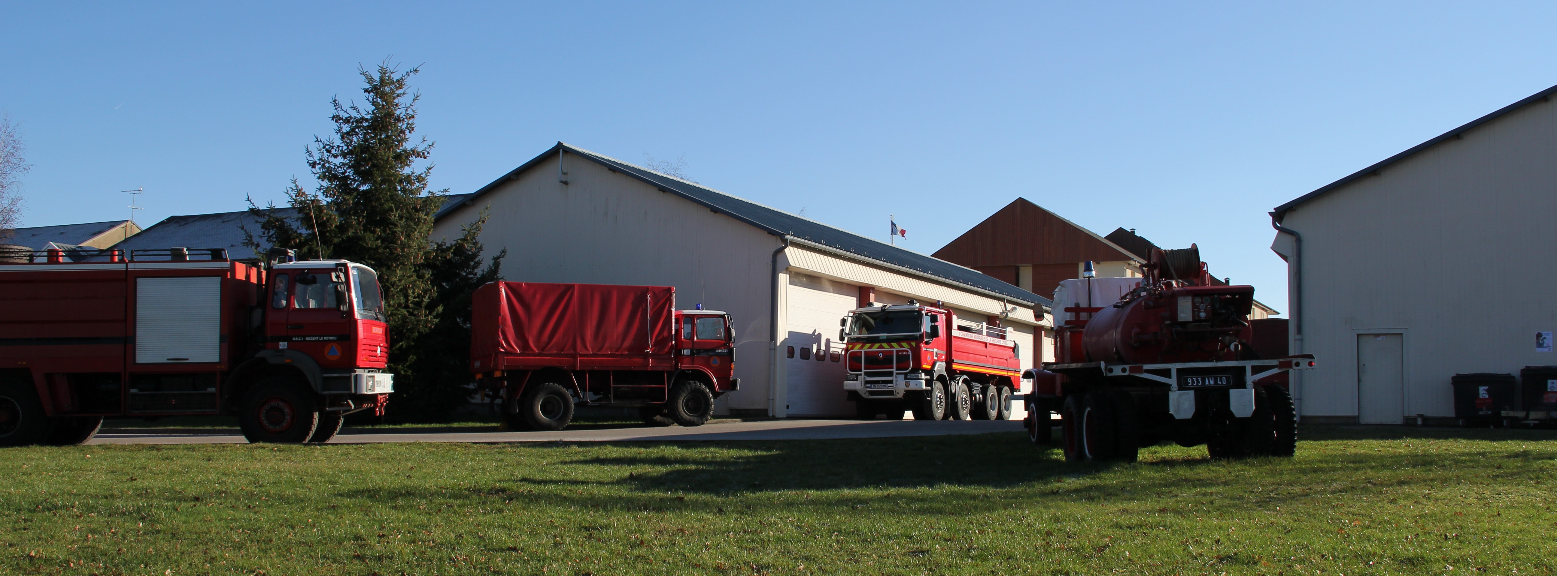 The French First Civil Defense Unit, based in Nogent-le-Rotrou, Eure-et-Loir, France.